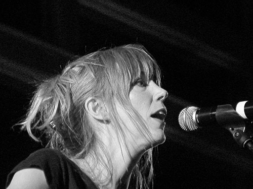 Beth Orthon at Aarhus Festival 2013